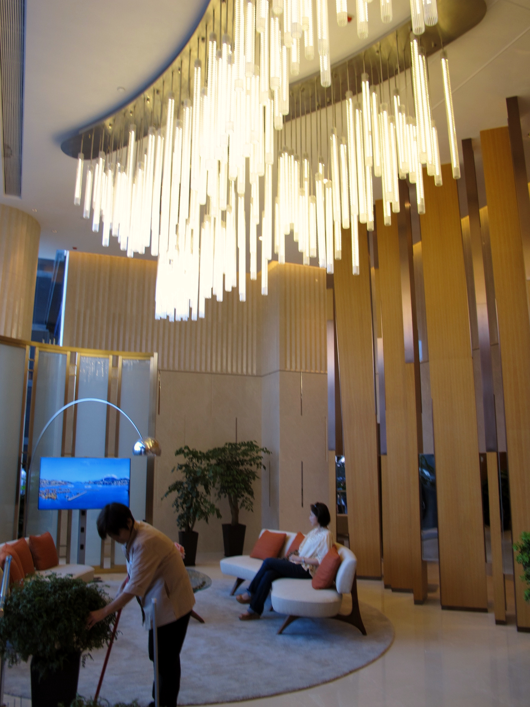 Bayview Lobby